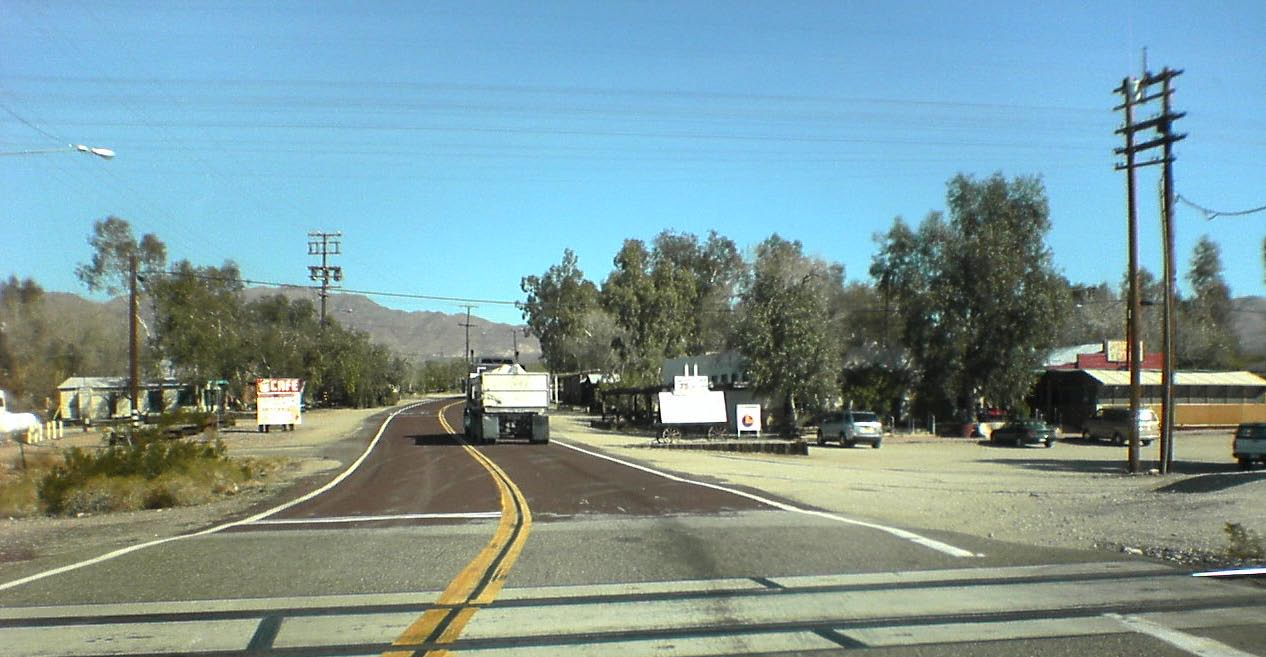 Photo of Nipton taken February, 2006. Nipton Road northeast from railroad tracks.